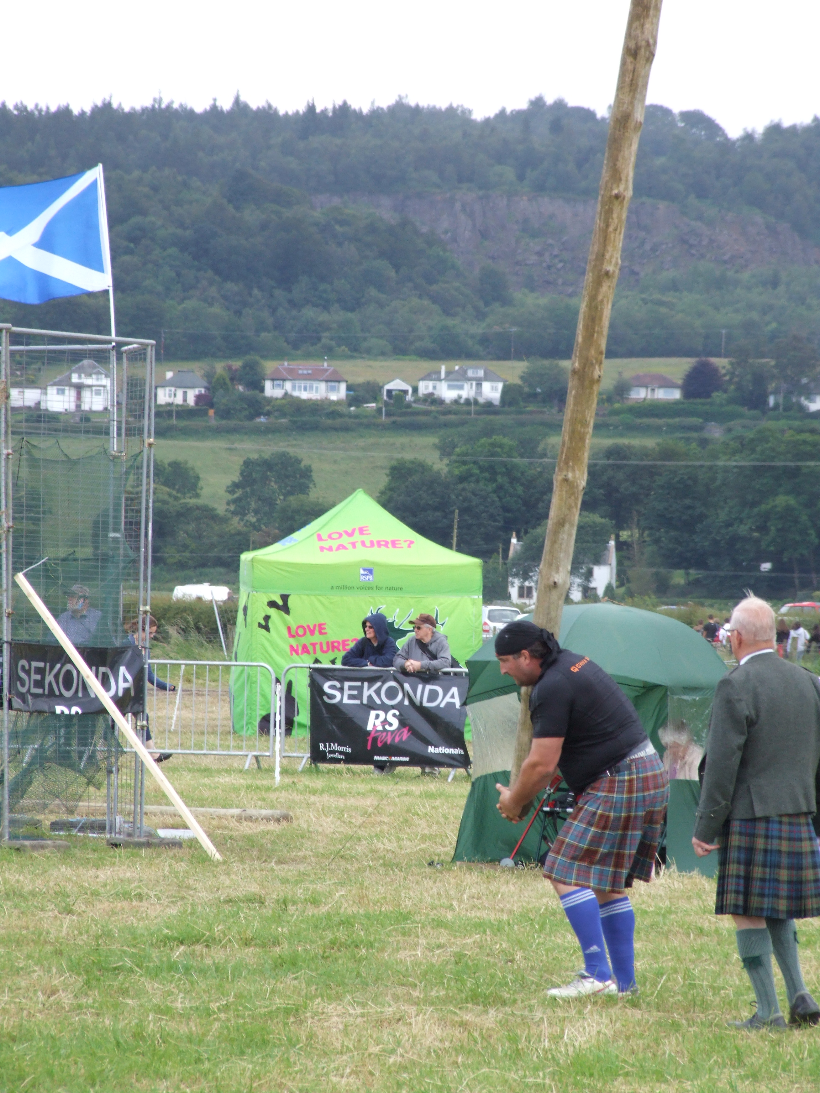 Highland games caber toss